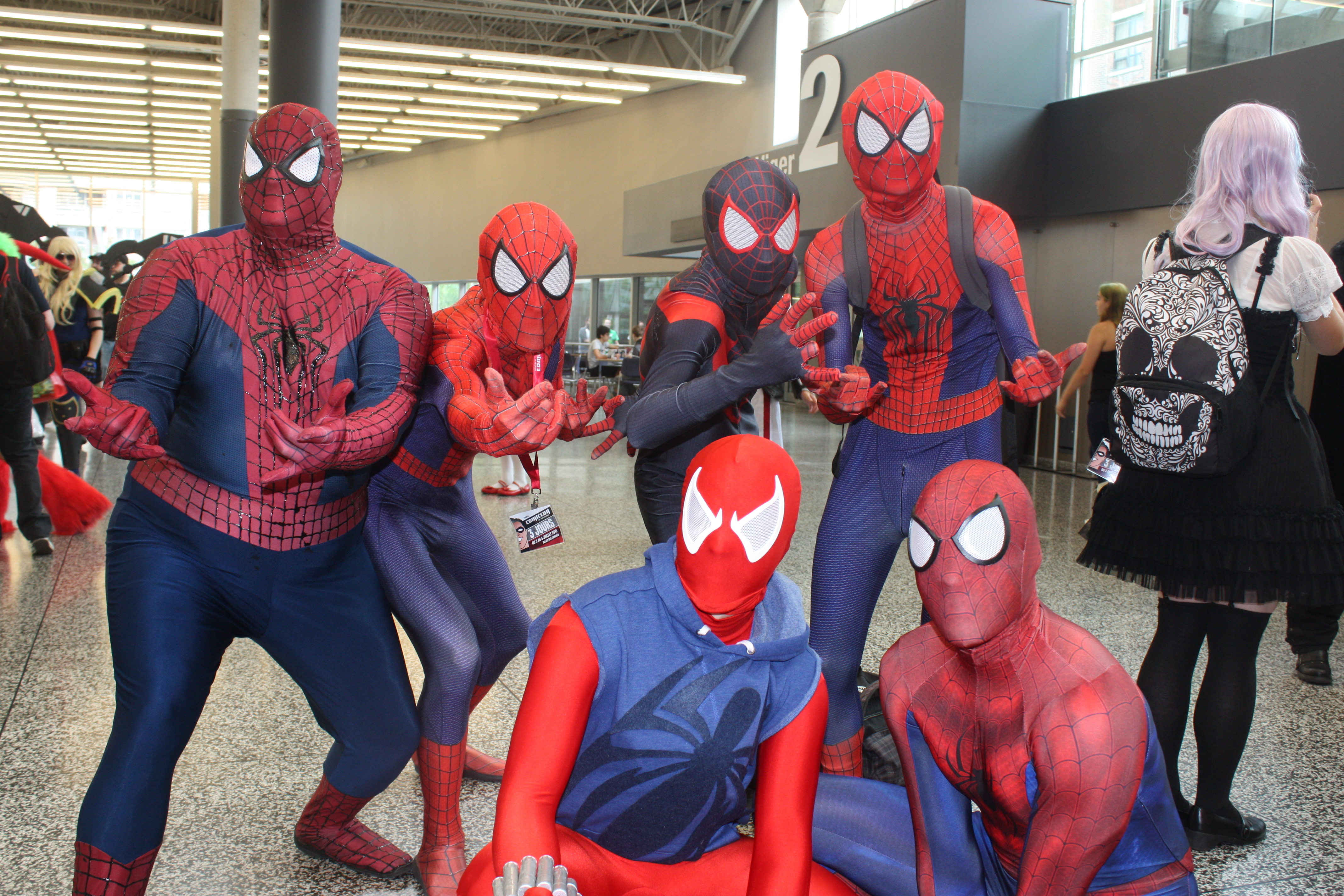 Cosplay one day two of Montreal Comiccon 2015.